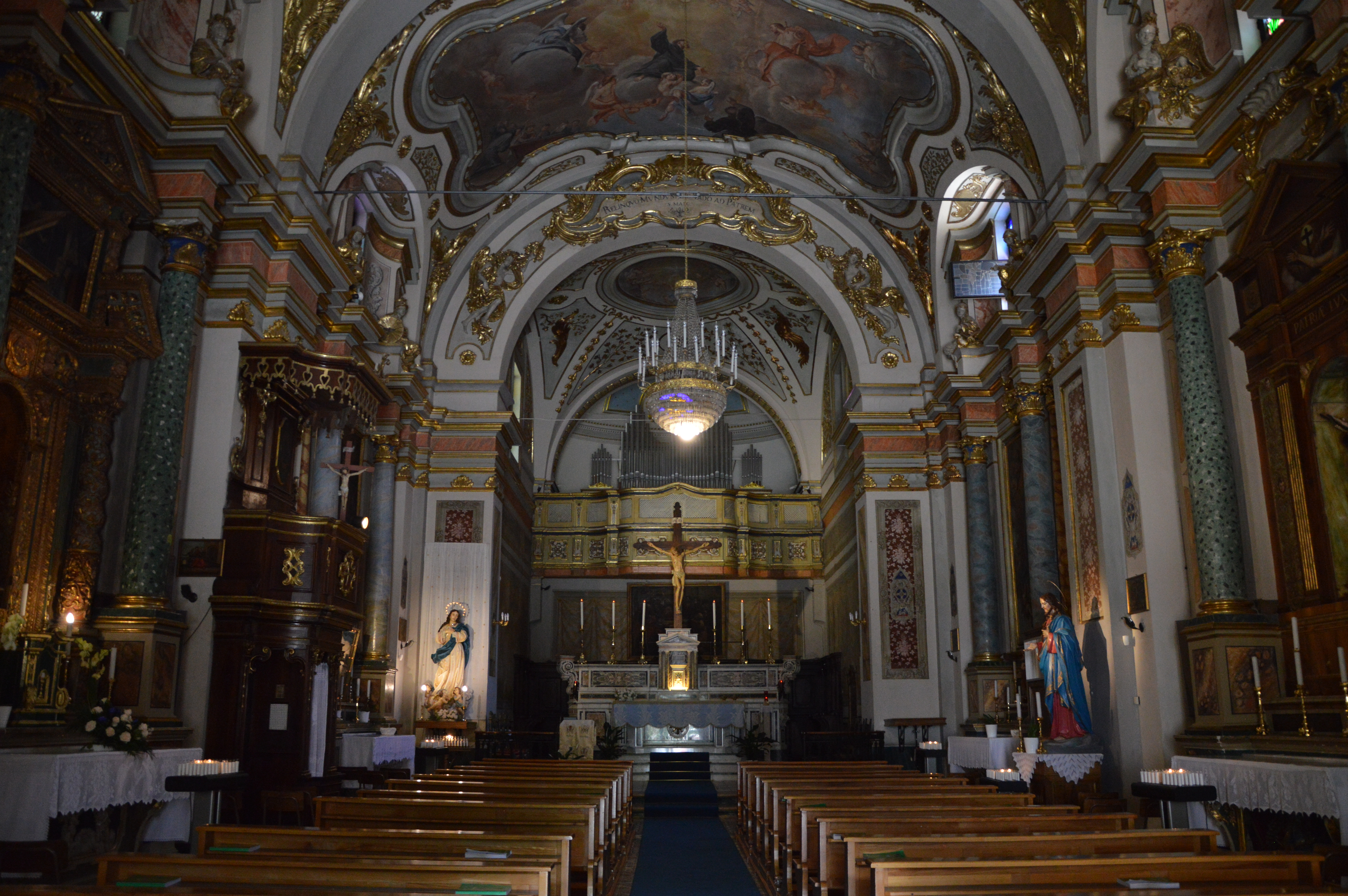 Interno